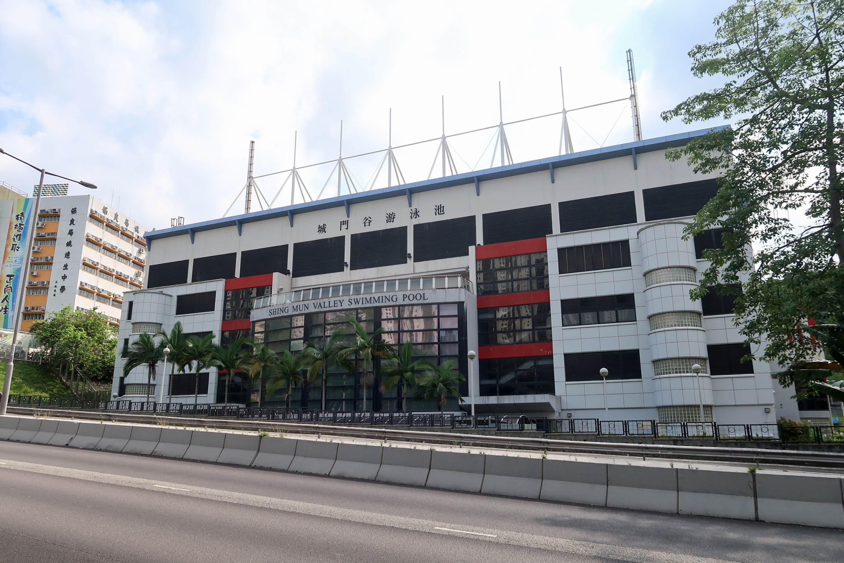 Shing Mun Valley Swimming Pool